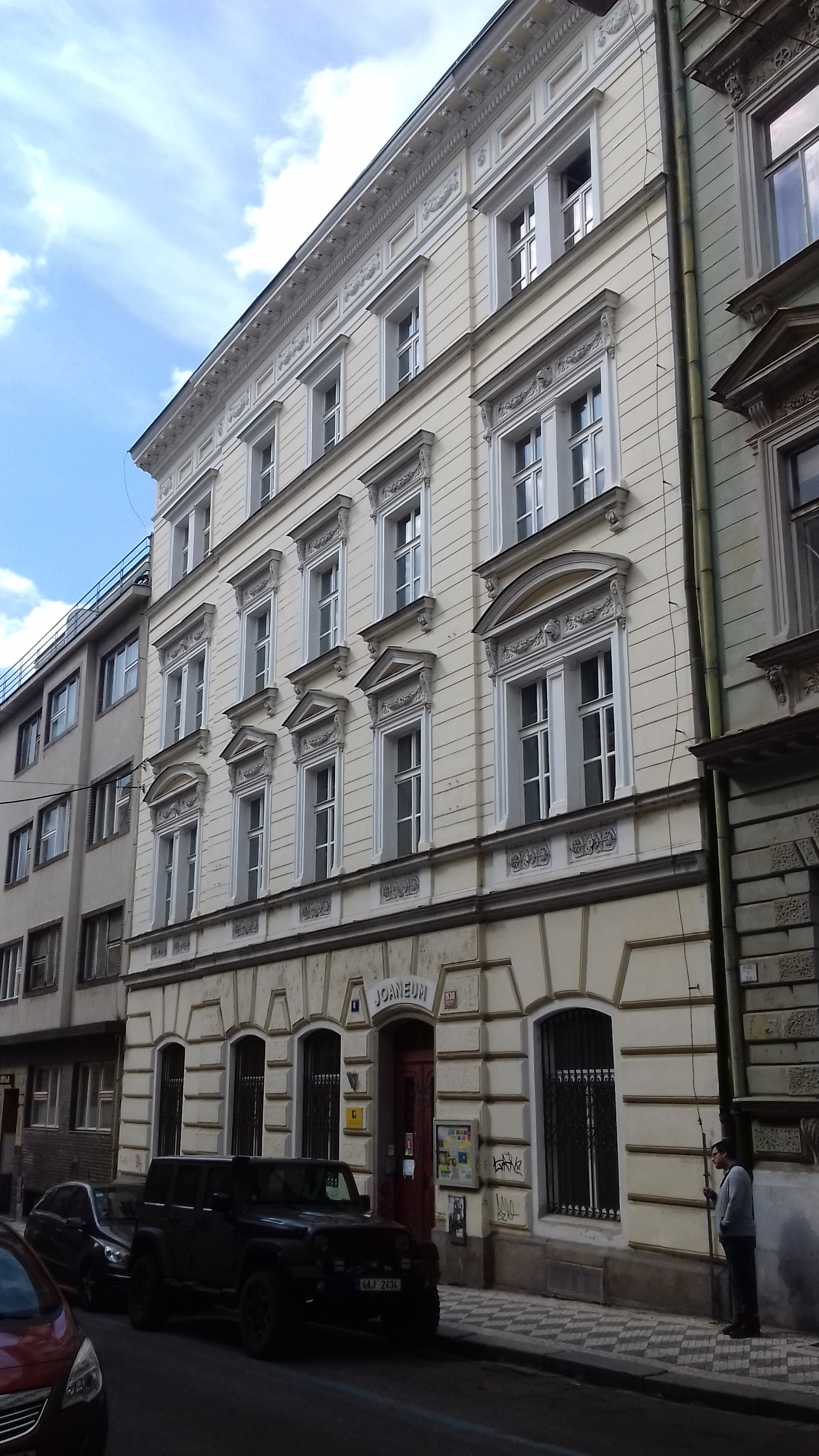 school in Salmovska Street, Prague 2